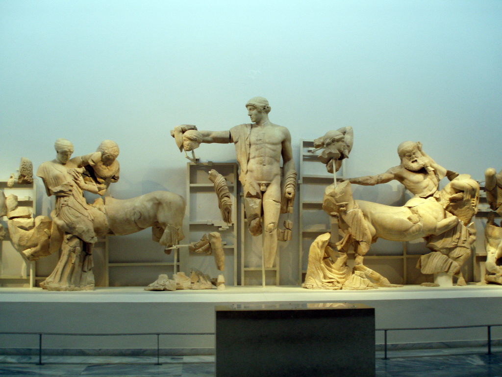 The central figure is Apollo, the god of order. He acts here as the judge and arbitrator of the argument. Obviously, no one is listening to him.